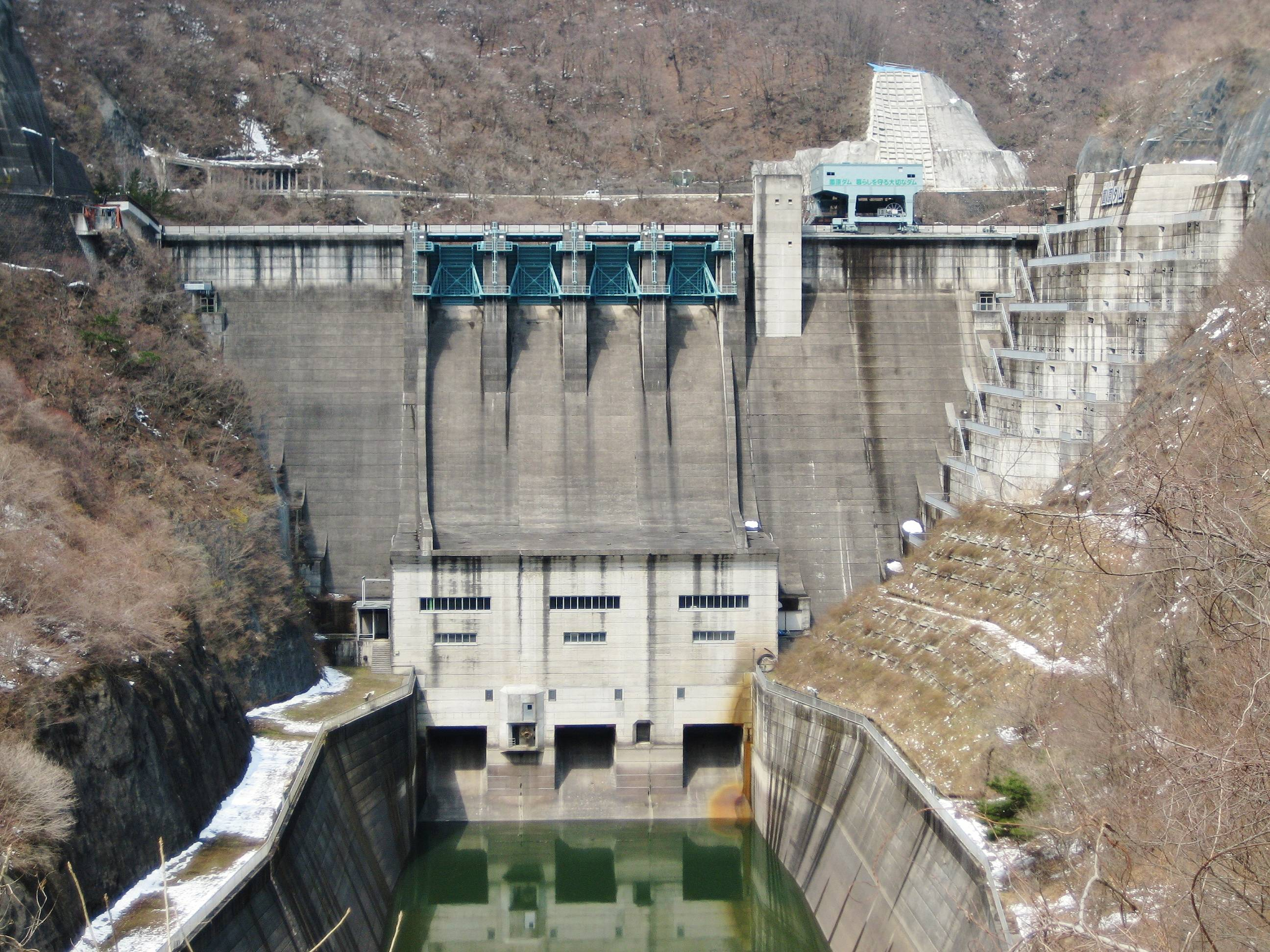 Sonohara Dam.